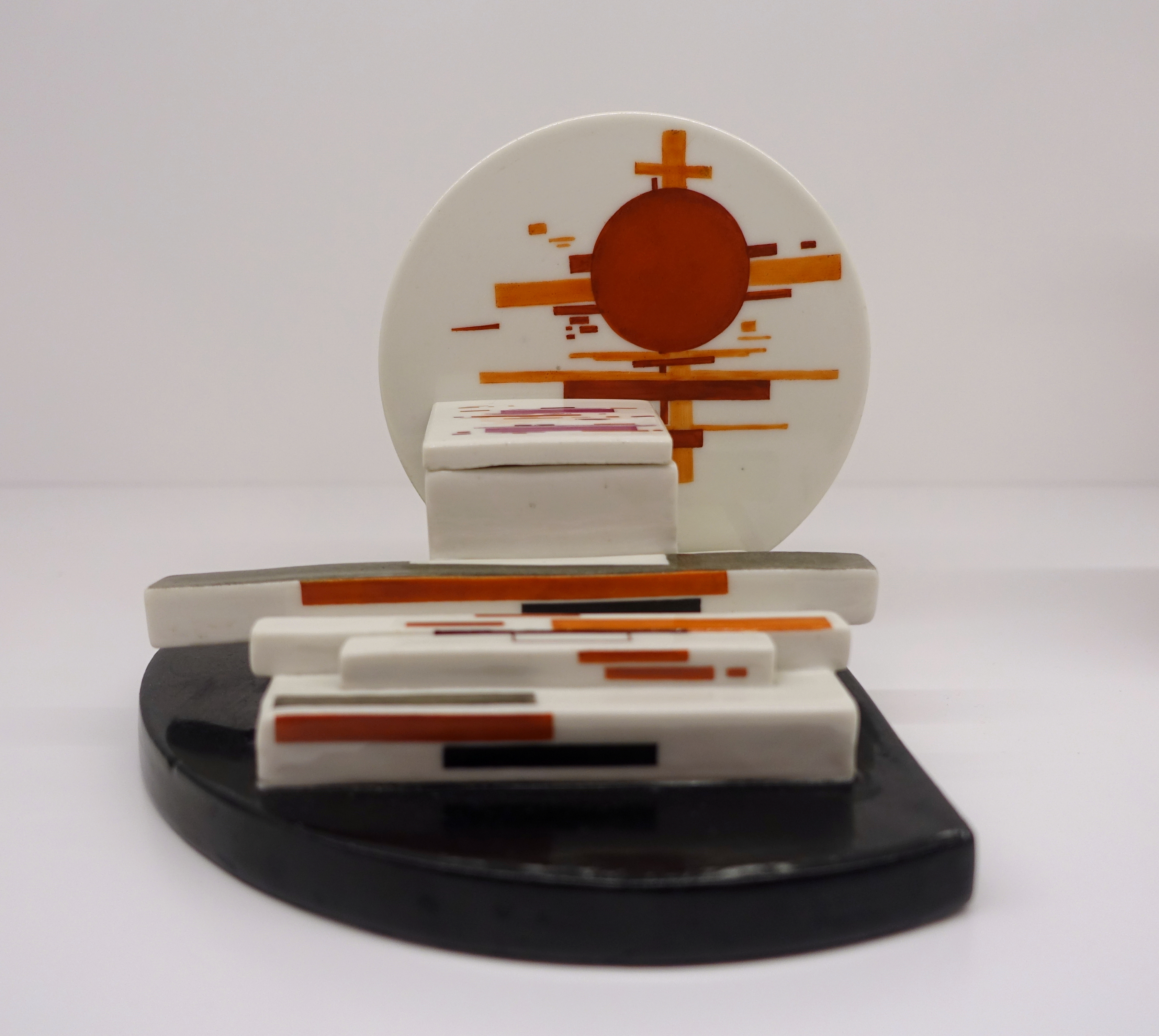 Desk set, designed by Nikolai Michajlowitsch Sujetin, Staatliche Porzellanmanufaktur, Petrograd USSR, 1923, hand-painted porcelain. Exhibit in the Museum für Angewandte Kunst Köln - Cologne, Germany. As a utilitarian object, this work is NOT subject to copyright laws. In Finland, the EU, and Russia, design rights are granted for a maximum of 25 years. This protection period has passed, and hence this work is now in the public domain.